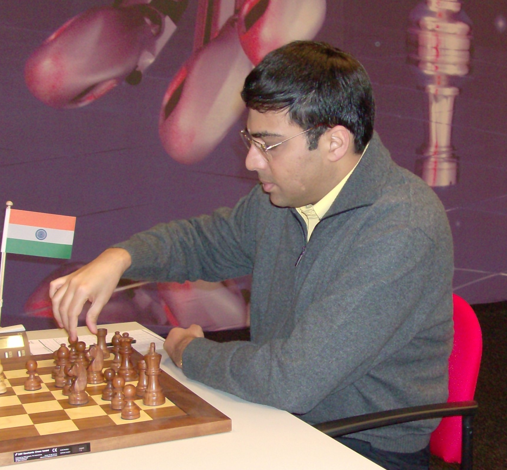 Viswanathan Anand, chess grandmaster from India